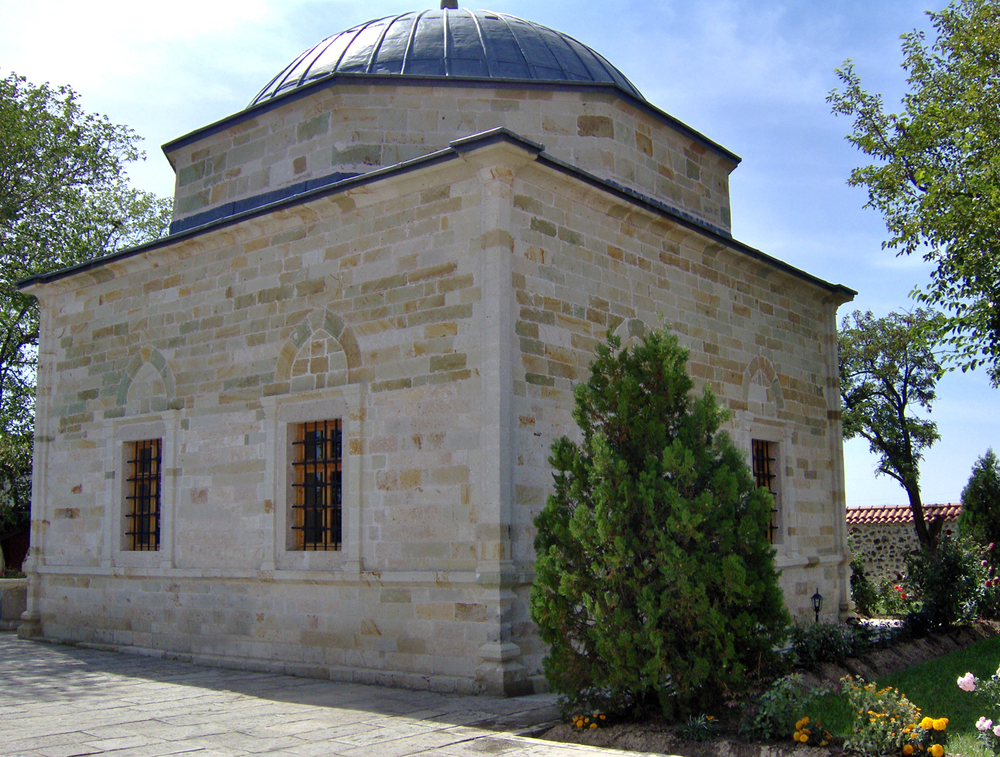 Tomb of Sultan Murad Khan I - Tomb (Meşhed-i Hüdavendigâr): In 1389 where the Battle of Kosovo had taken place, this tomb was established by Sultan Yıldırım Bayezid for his father, great Turkish khan Sultan Murad Khan I. Sultan Murad Khan I was assassinated here, a this spot, by Serbian Knight Miloš Obilić and his internal organs are buried here. (Kosovo - Pristina Surroundings) 2006